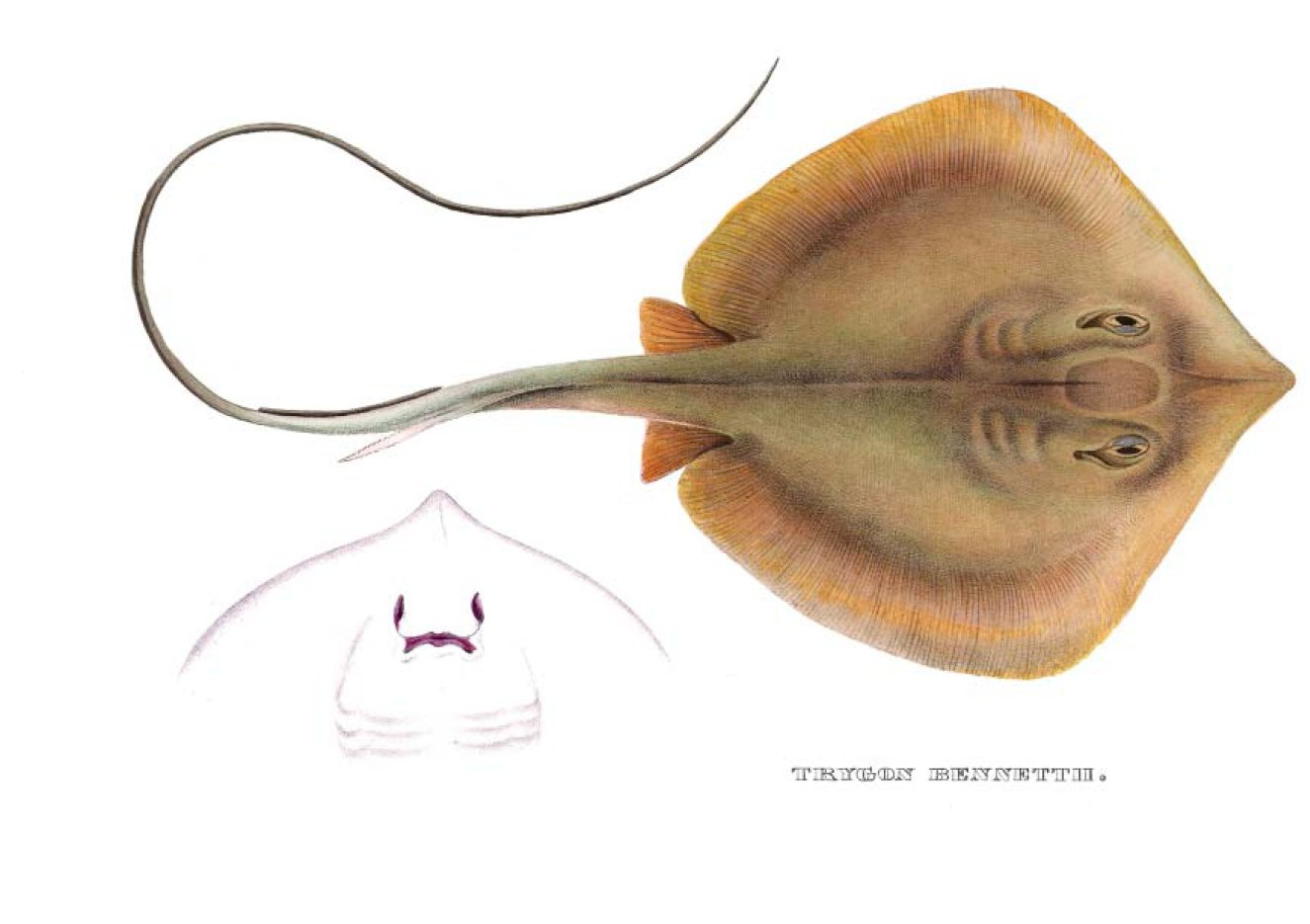 Dasyatis bennetti syn. Trygon bennettii